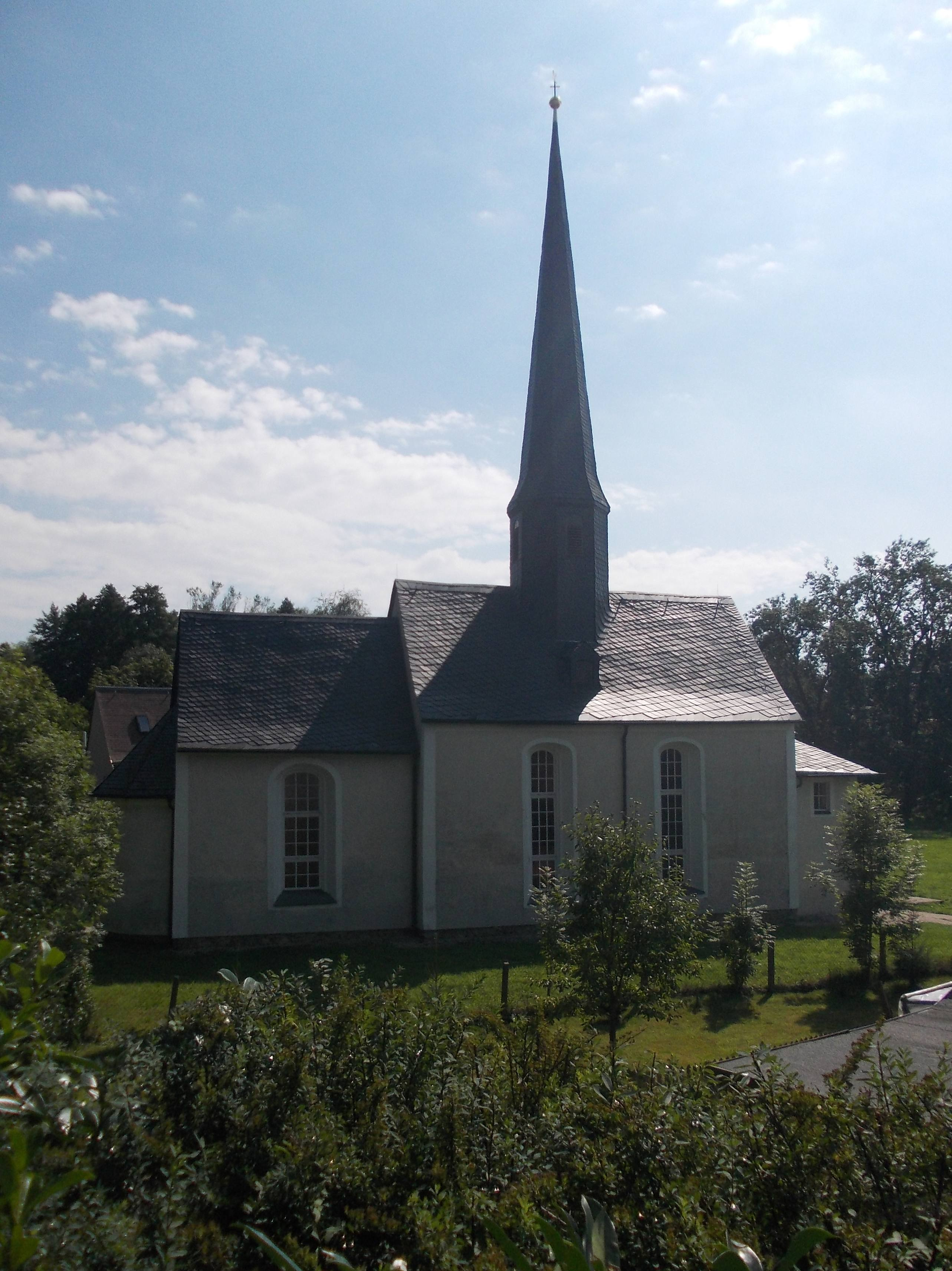 Lauenhain church (Crimmitschau, Zwickau district, Saxony). Strictly speaking, the church is situated in the village of Harthau merged with Lauenhain.